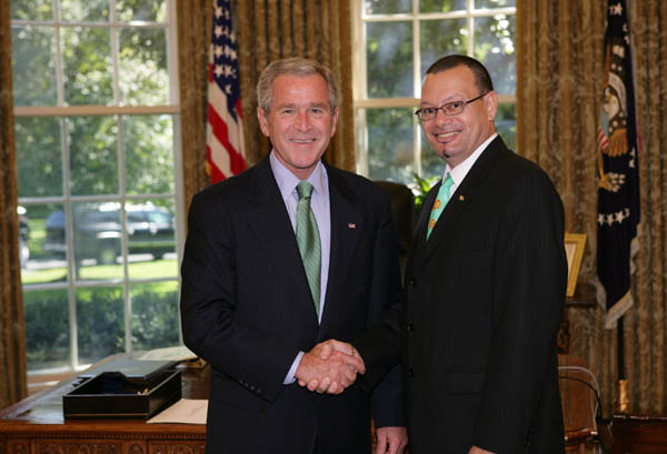 Former United States President George W. Bush (left) meeting with the Ambassador of the Seychelles to the United States Ronald Jumeau in the Oval Office.